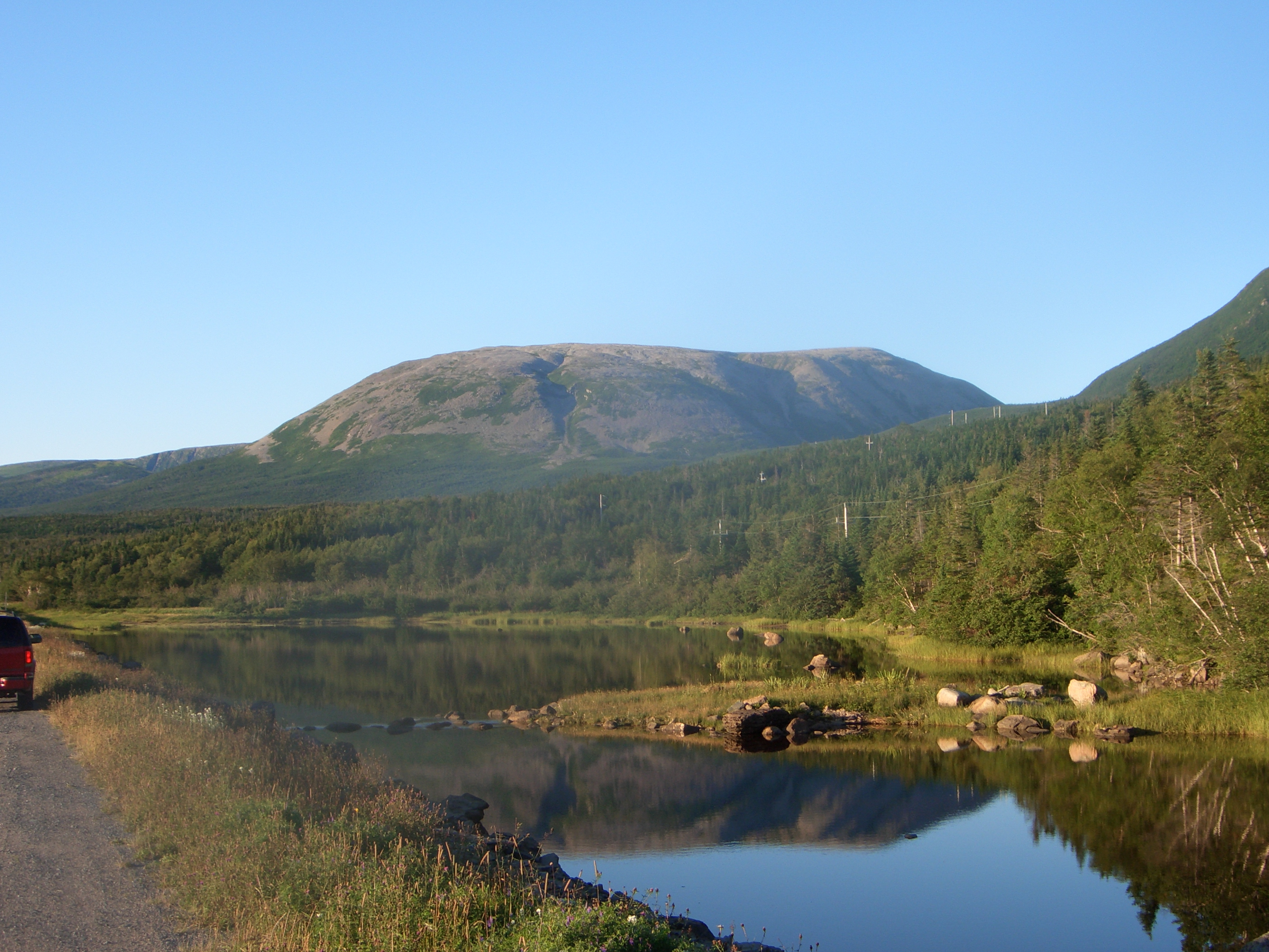 Gros Morne Mountain Gros Morne National Park Newfoundland CANADA digital photograph taken August 4, 2006 by Kevin Bunt